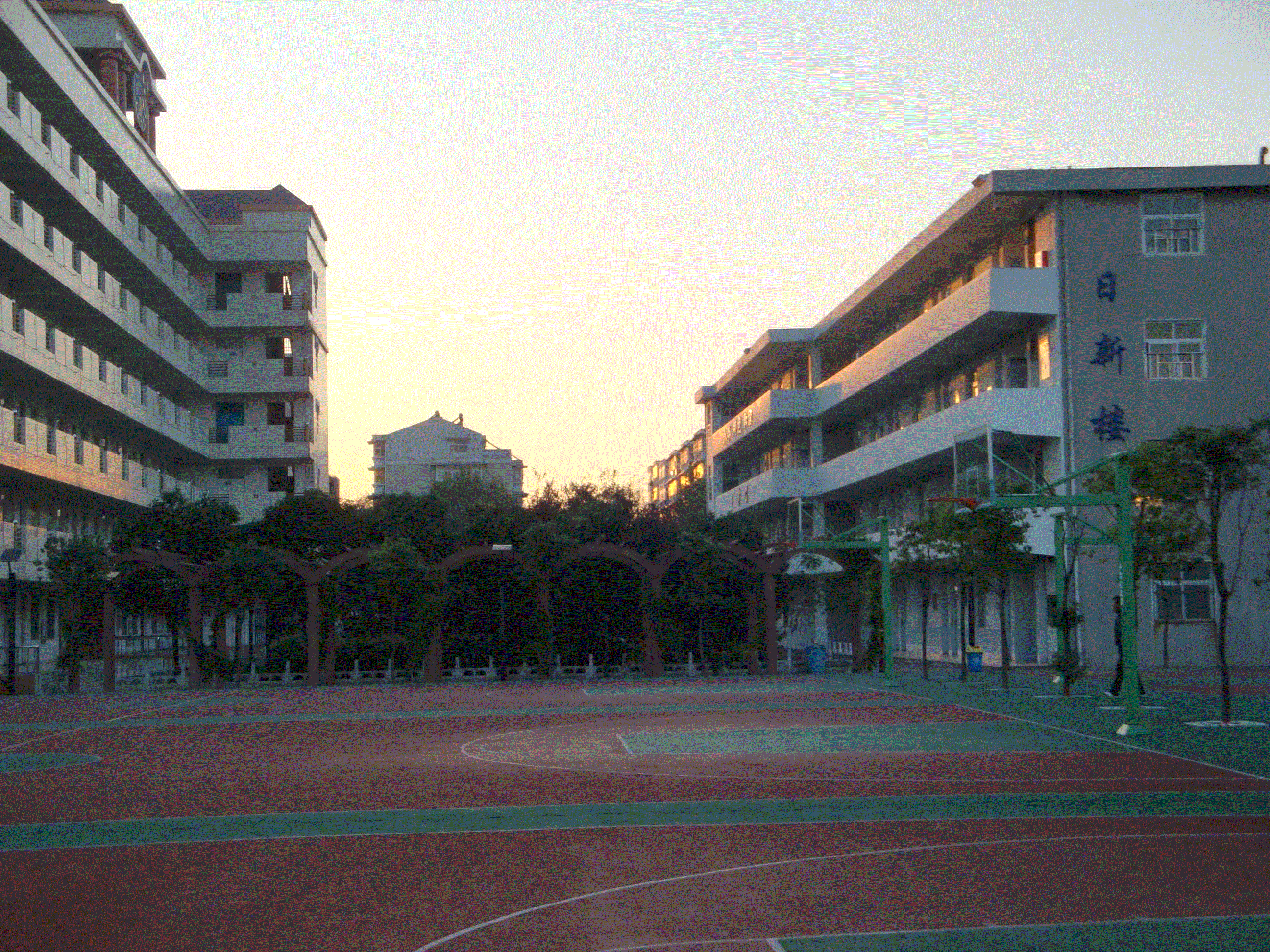 school photo---No.9 Middle School Bengbu Anhui